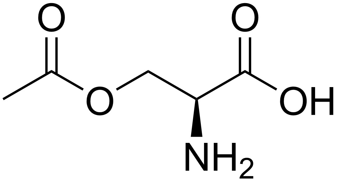 chemical structure of O-acetylserine